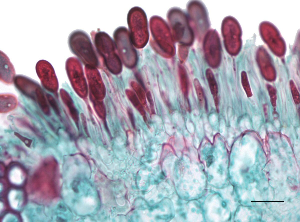 Light microscopy of Puccinia grammis showing the urediosporangium and the urediospores before release. In one of the urediospores the two characteristic nuclei of the spores can be seen clearly. Scale bar = 0.02mm.